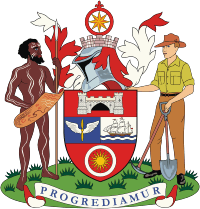 Coat of arms of the city of Darwin (Australia)